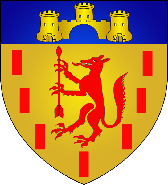 Coat of arms of the municipality of Walferdange, Luxembourg